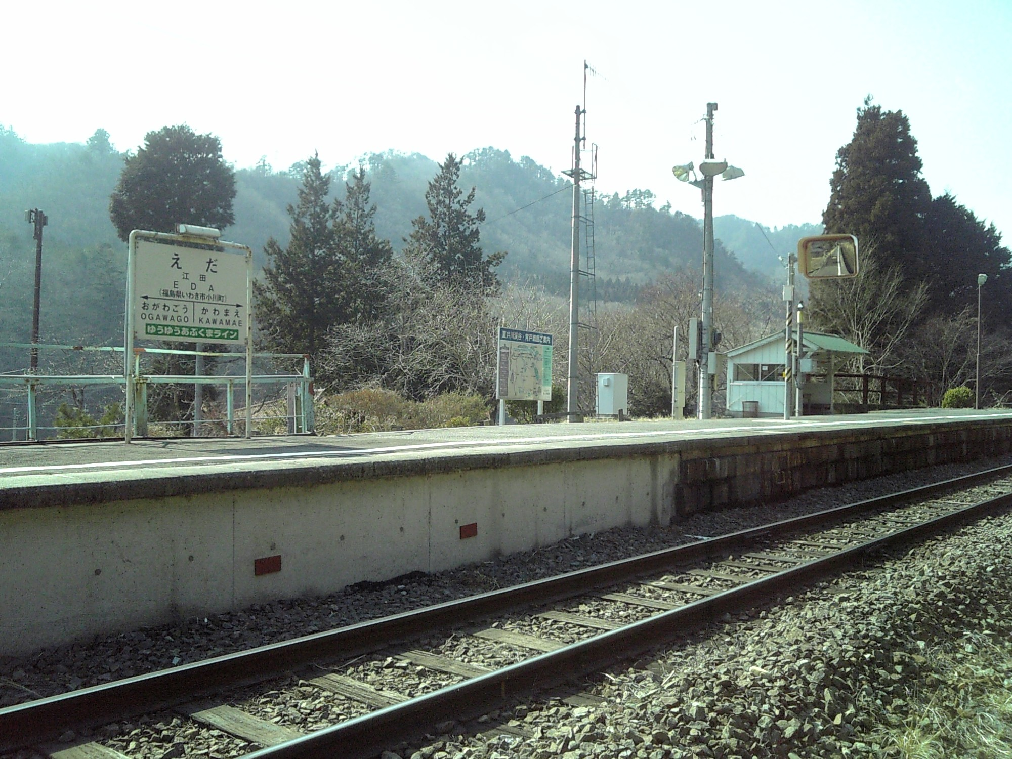 JR East Eda Station on the Banetsu East Line in Fukushima Prefecture, Japan